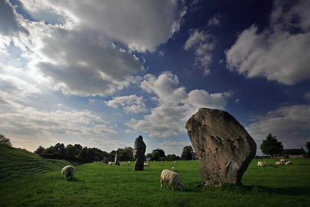 Avebury Ring